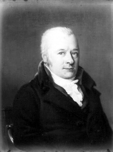 Portrait of Regenerus Livius van Andringa de Kempenaer (1752-1813), grietman (administrator and judge) of Lemsterland (in Frisia, the Netherlands), governor of Frisia (1806-1810) and of de Lower IJssel (Gelderland) (1810-1813).